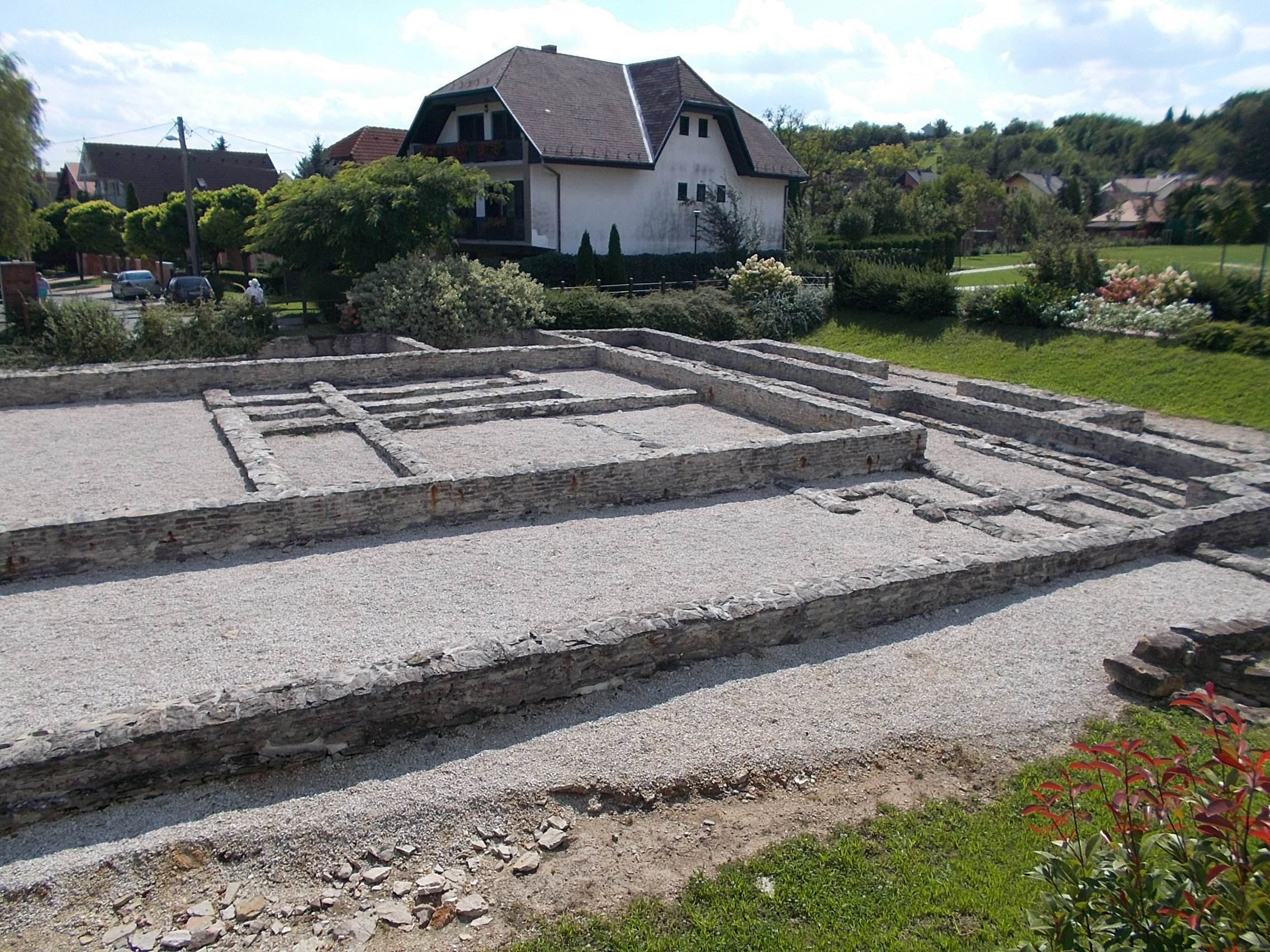 1st stone period, II. century A.D., a 45x23 m size stone house built here. In 2nd stone period, III. century A.D. a Mithras shrine with (at least) three altar stones placed here. In 3rd stone period (IV. century A.D.) destroyed the Mithras shrine, the 200years old building walls was strengthened. It finally burned down during the first half of the 5th century. - Ruins of the Villa Rustica. One of the most important relic of the surrounding around Balaton is the stone building excavated in Egregy district. Egregy,Hévíz, Zala County, Hungary.